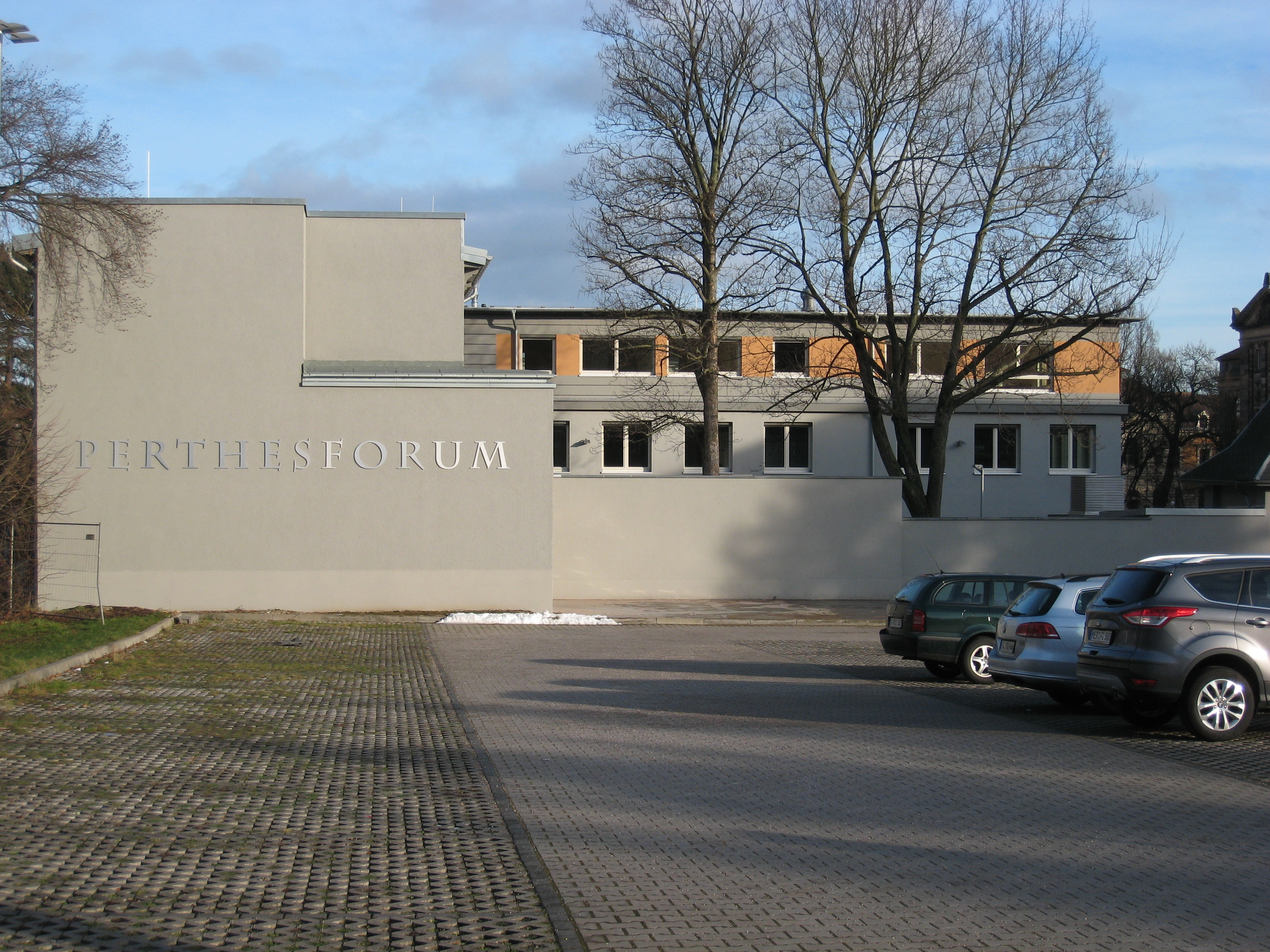 Perthesforum Gotha, Justus-Perthes-Straße